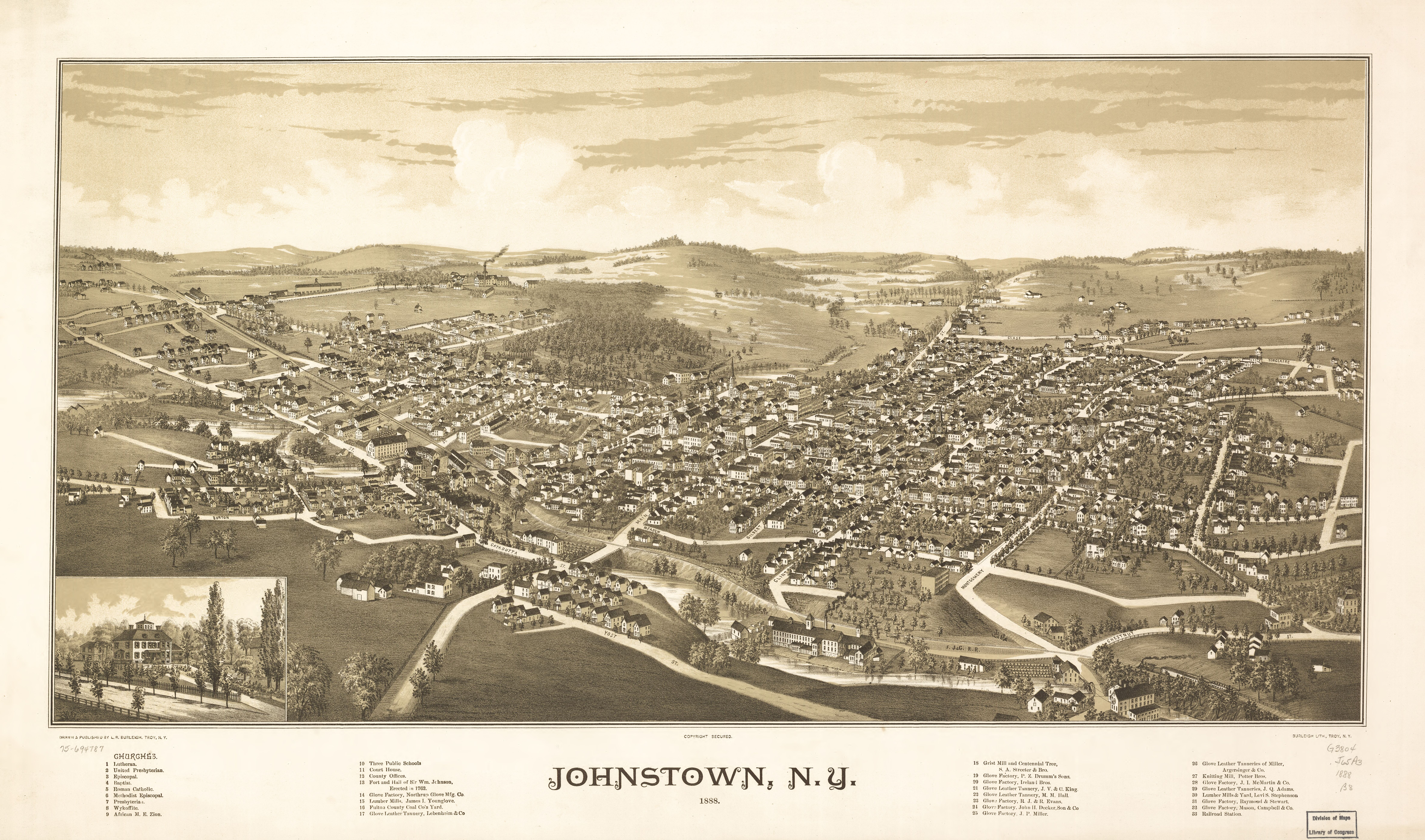 Perspective map not drawn to scale. Bird's-eye view. LC Panoramic maps (2nd ed.), 577 Available also through the Library of Congress Web site as a raster image. Includes illus. and index to points of interest. AACR2